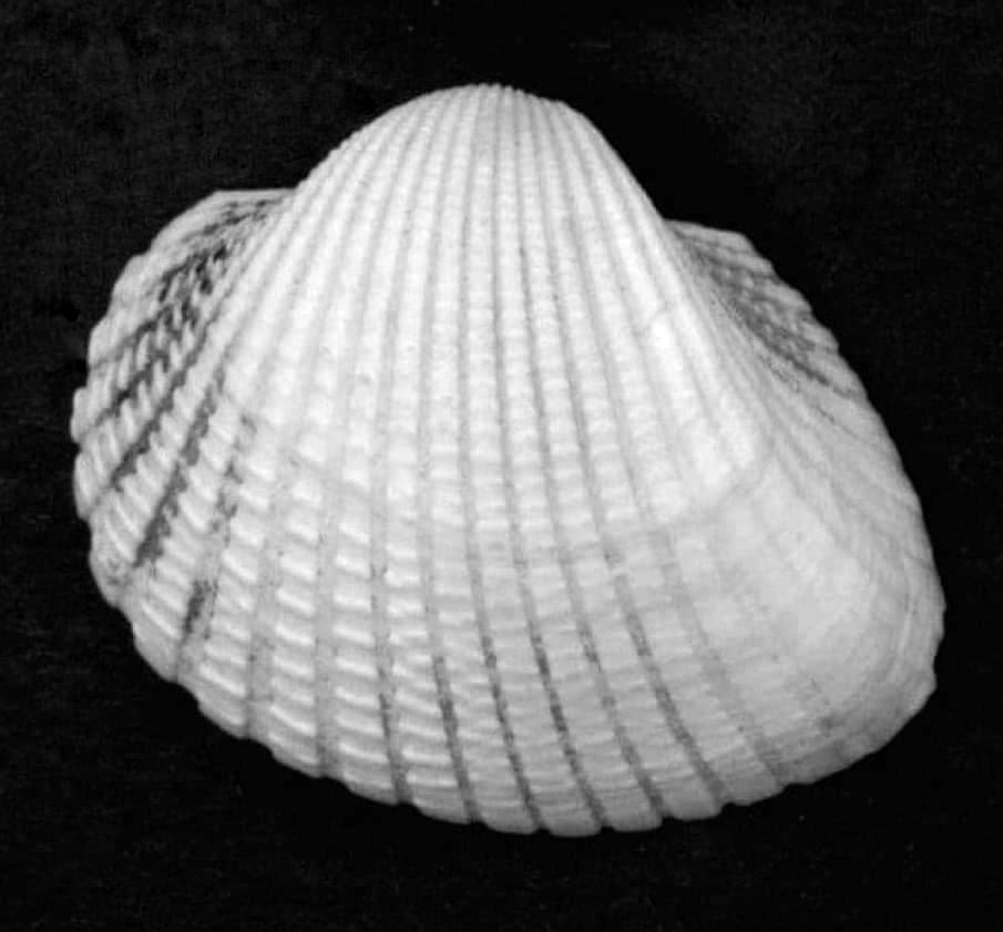 Black and white image of the valve of the seashell Anadara brasiliana (Lamarck, 1819)[1] (specimen from Florida); from the collection of Naturalis Biodiversity Center.